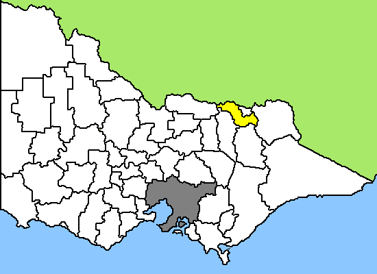 Map of Victoria/Australia, LGA of Wellington Shire highlighted